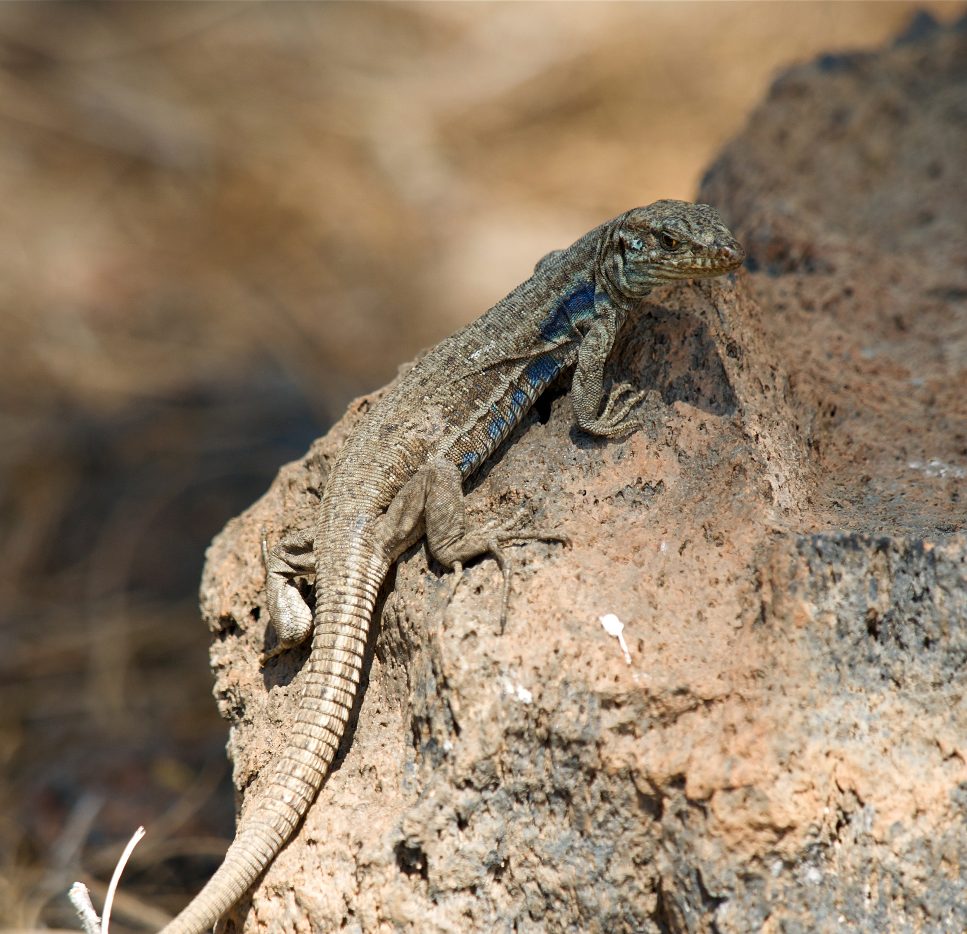 Young male Tenerife Lizard (Gallotia galloti galloti); Las Cañadas, Tenerife, Spain